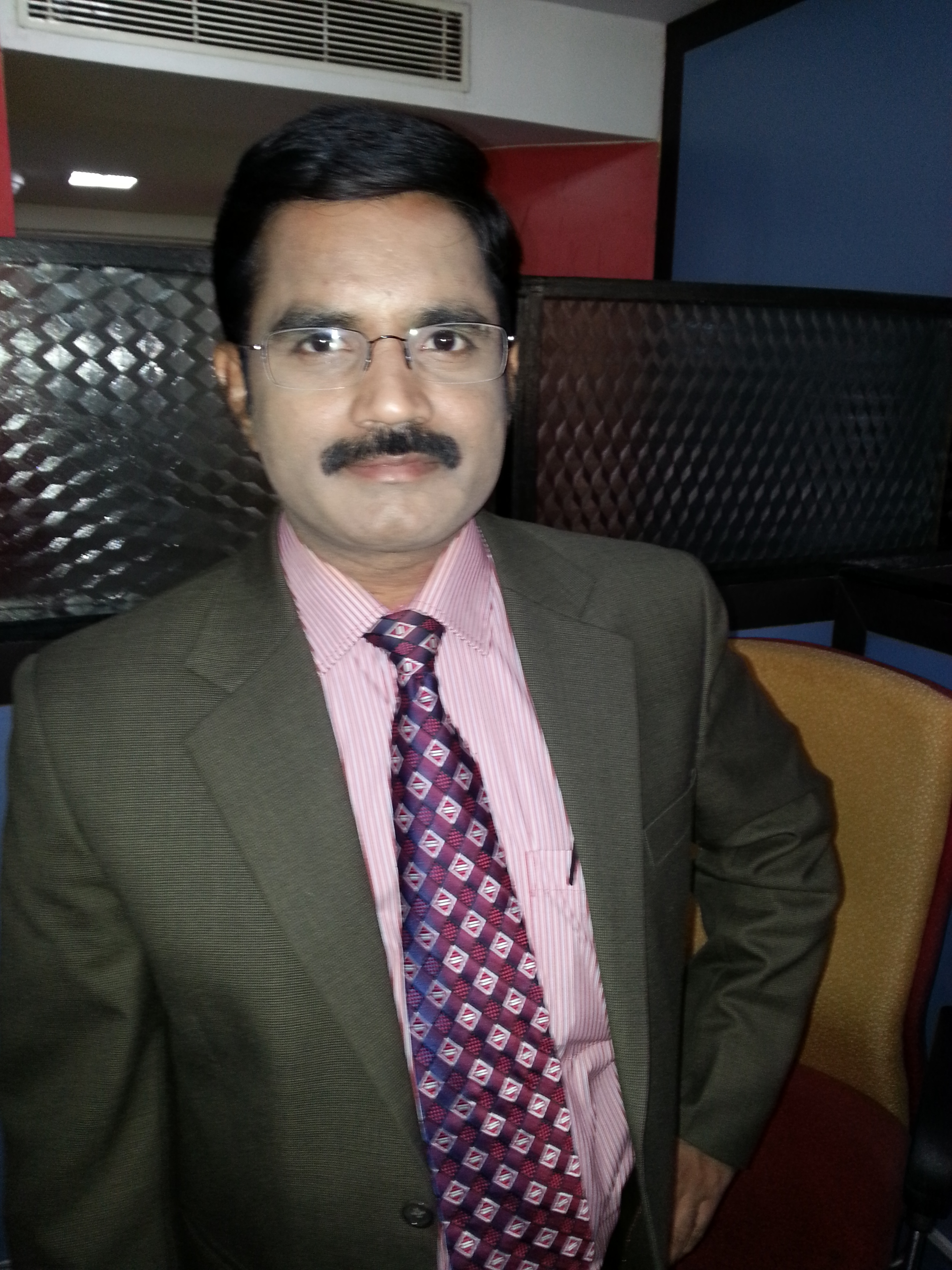 HMTV Telugu News Channel Editor Sreedhar